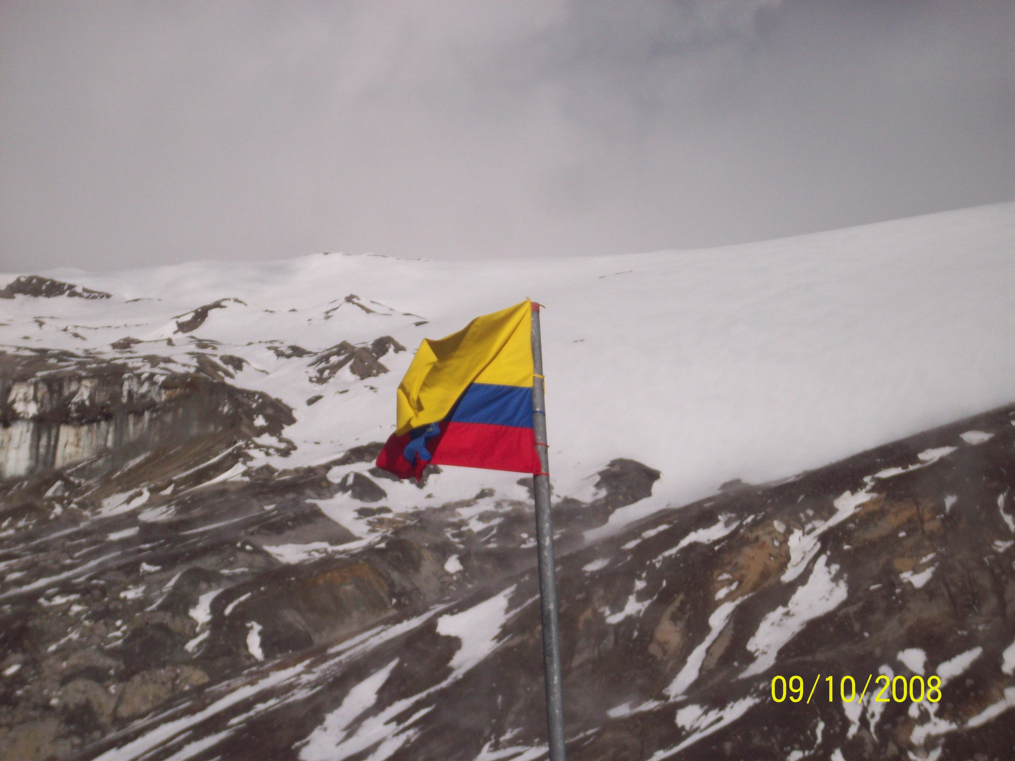 photo taken climbing up to the ruiz's snow-covered mountain approximately to 4900 meters on the sea level